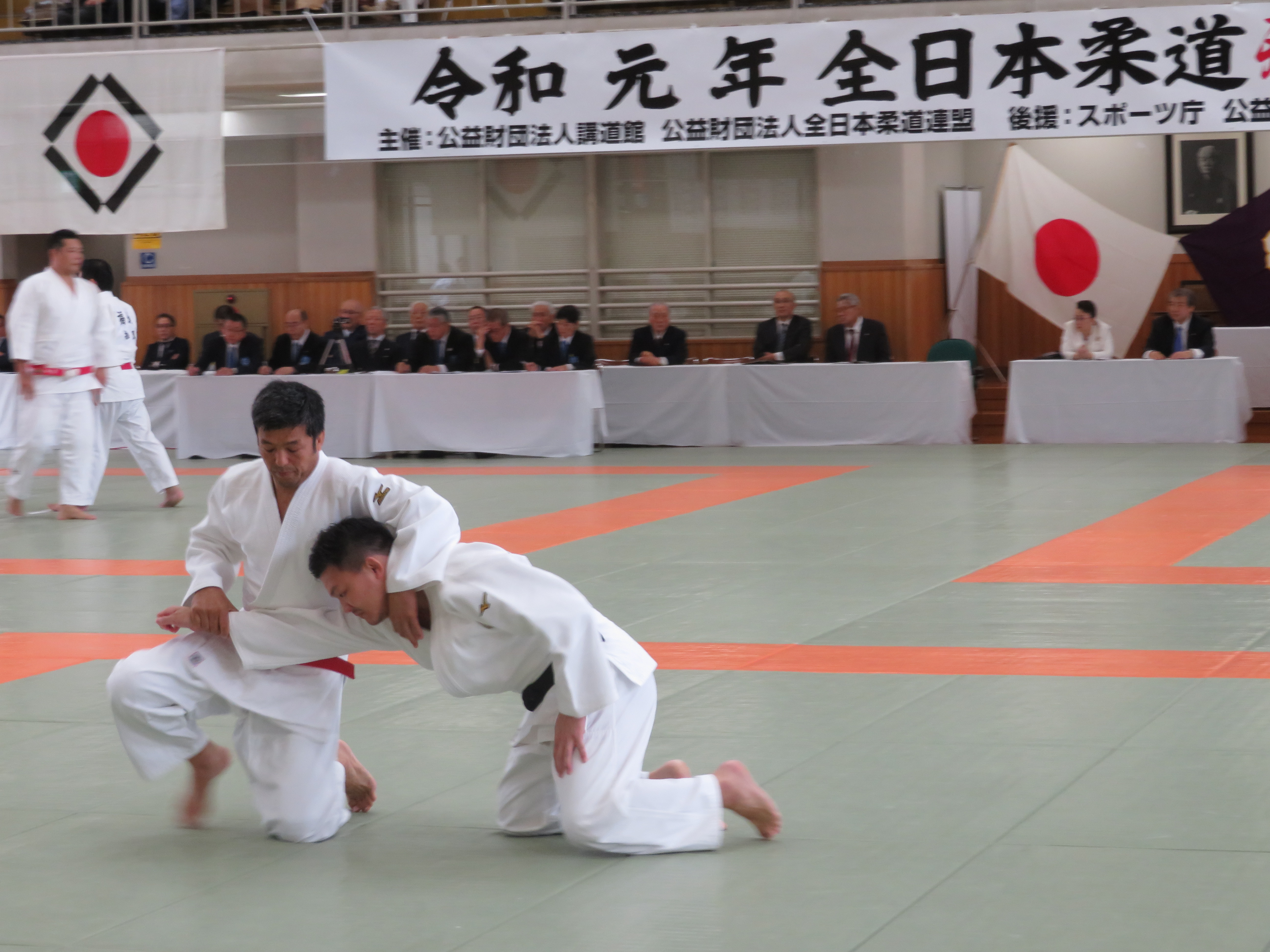 Kime no Kata